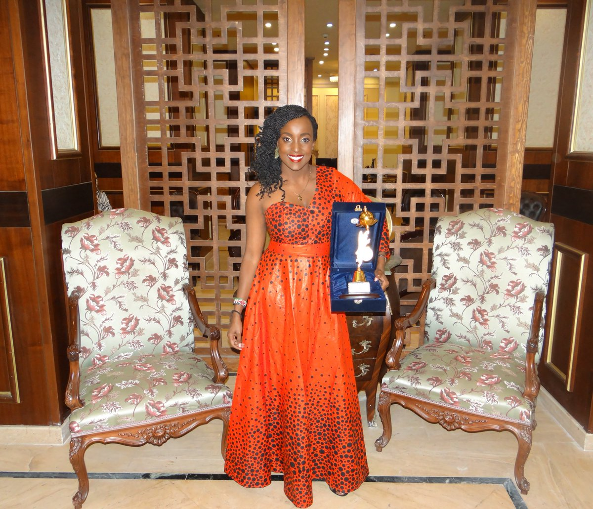 Idah Waringa winning media award in Egypt